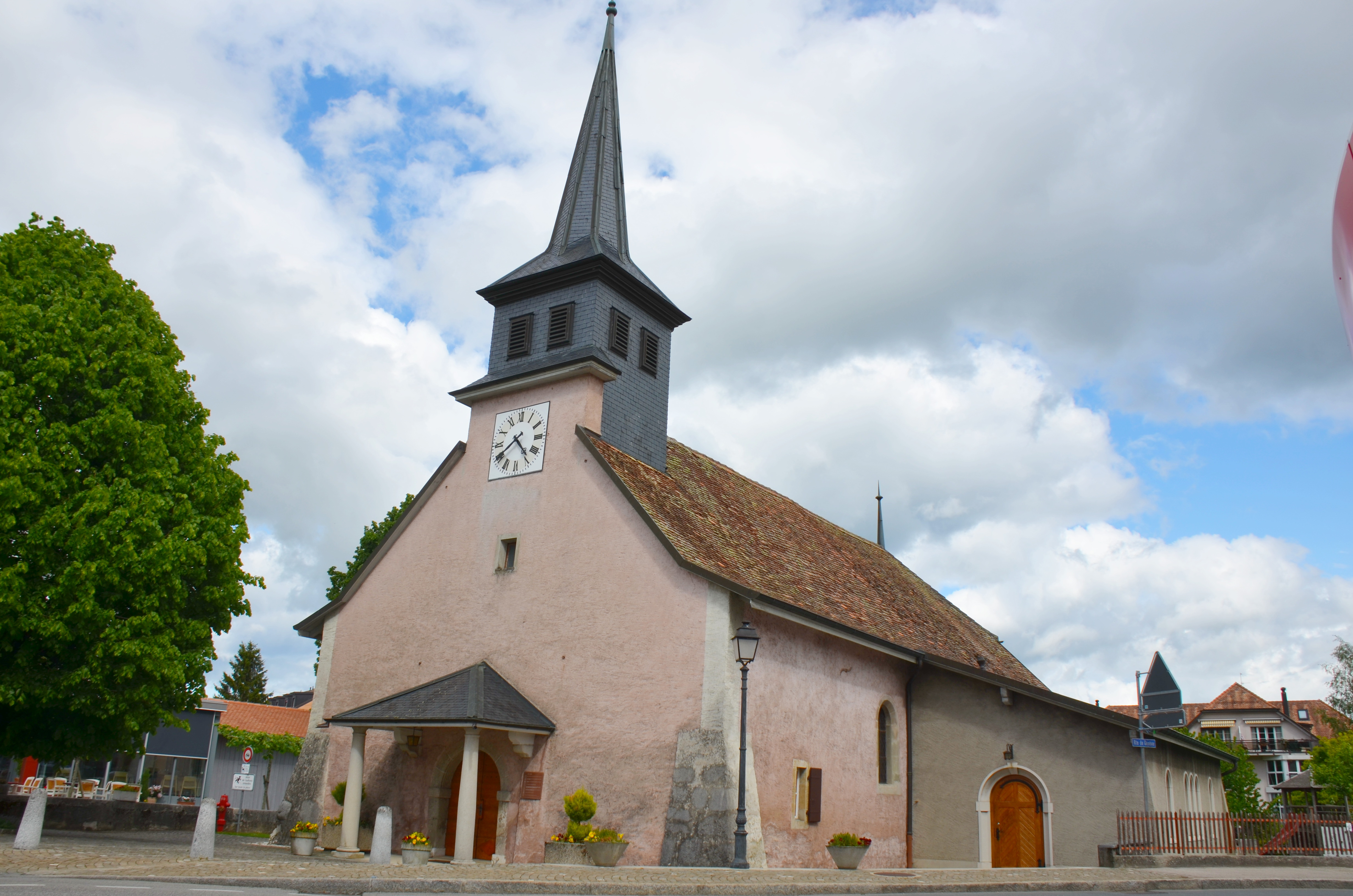 church of Crassier at the French/Swiss border in the Jura